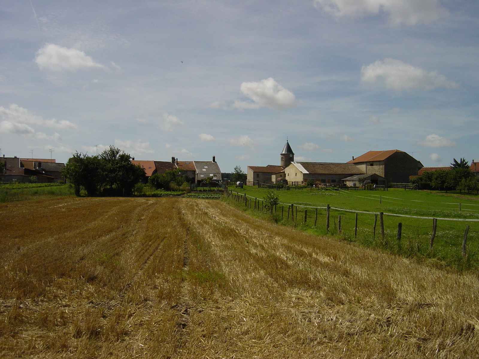 View of the village from North